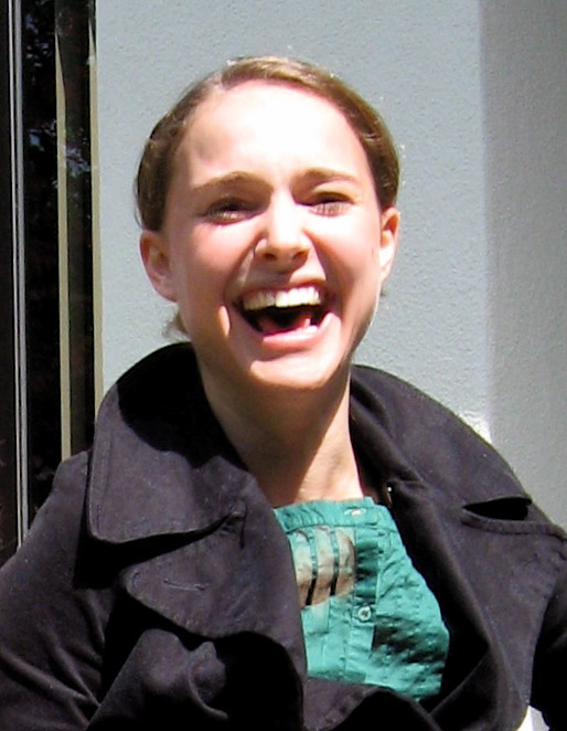 Natalie Portman, actress.